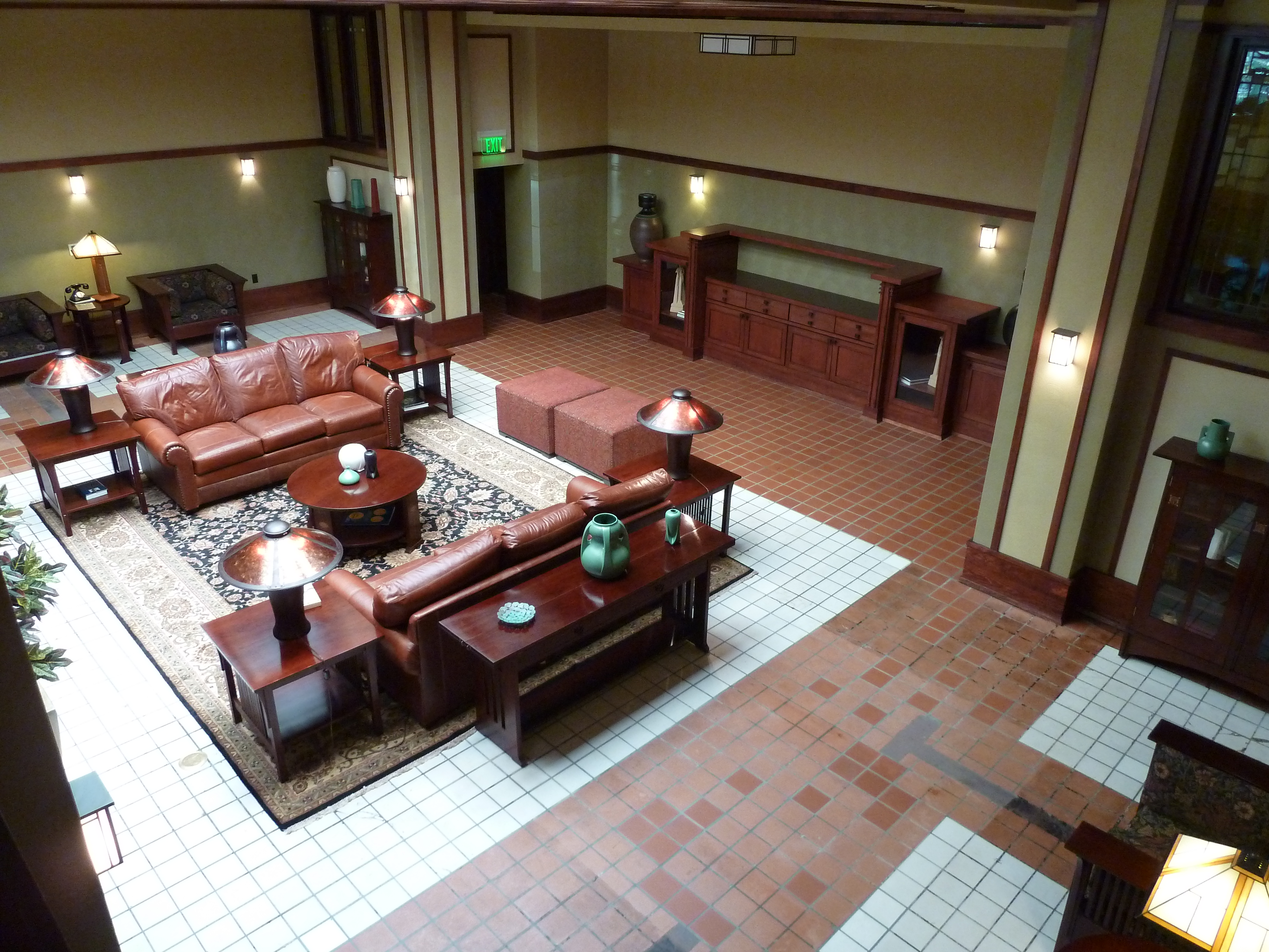 The restored Skylight Room of the Park Inn Hotel, designed by Frank Lloyd Wright, Mason City, Iowa.